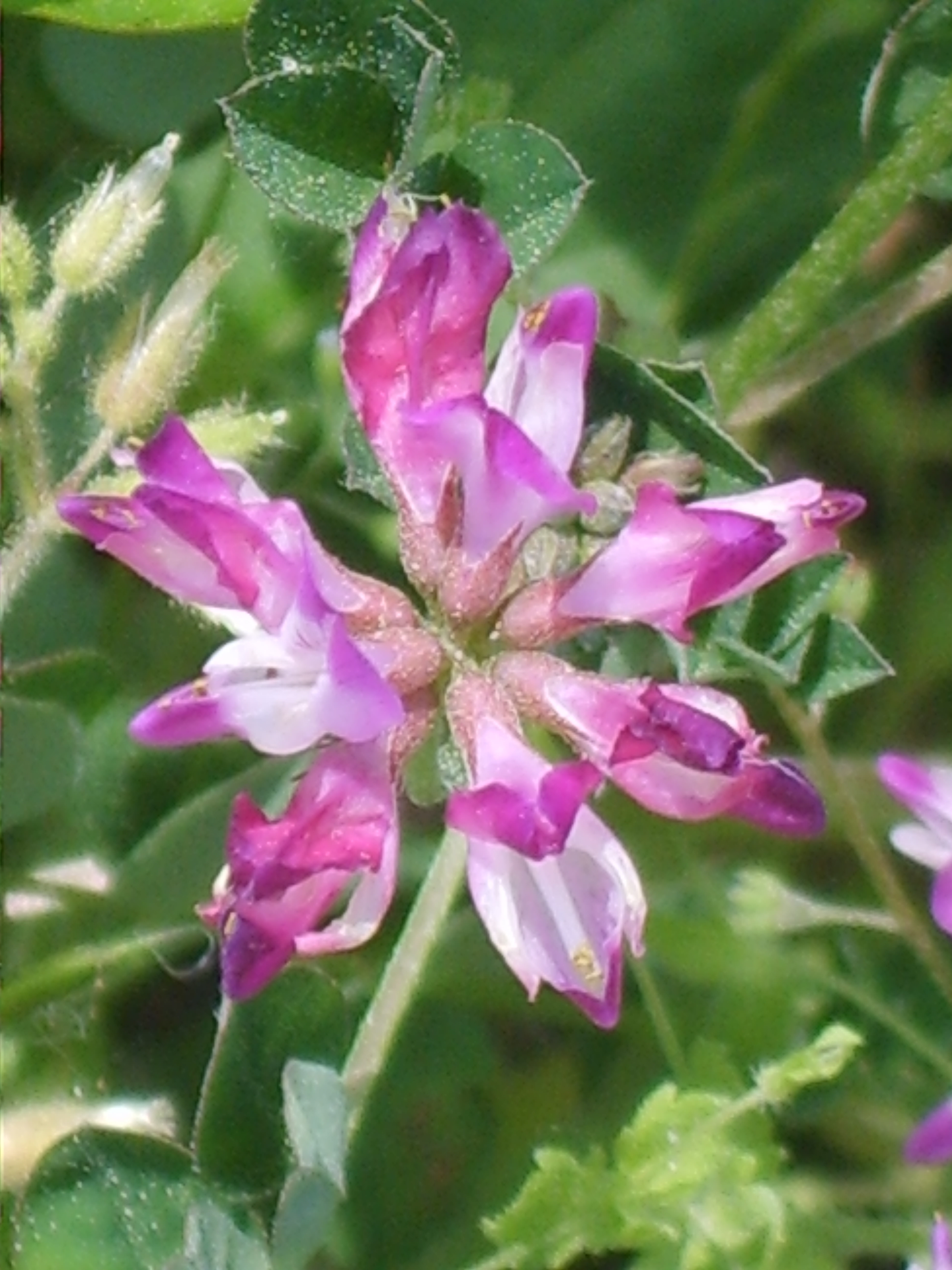 Astragalus sinicus